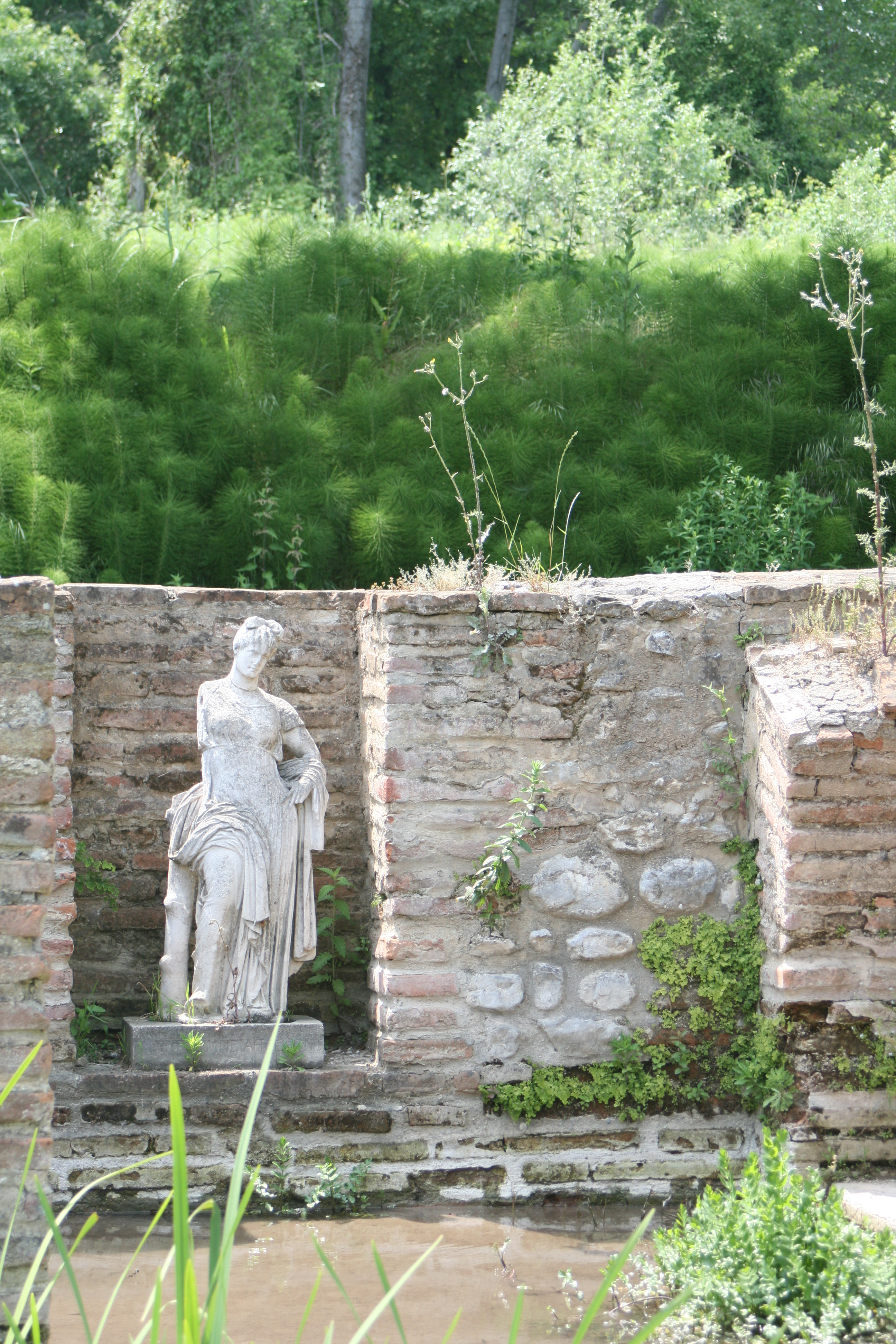 Dion is a village in the Prefecture of Pieria, Macedonia, Greece, best known for its museum and archaeological site at the foot of Mt. Olympus.